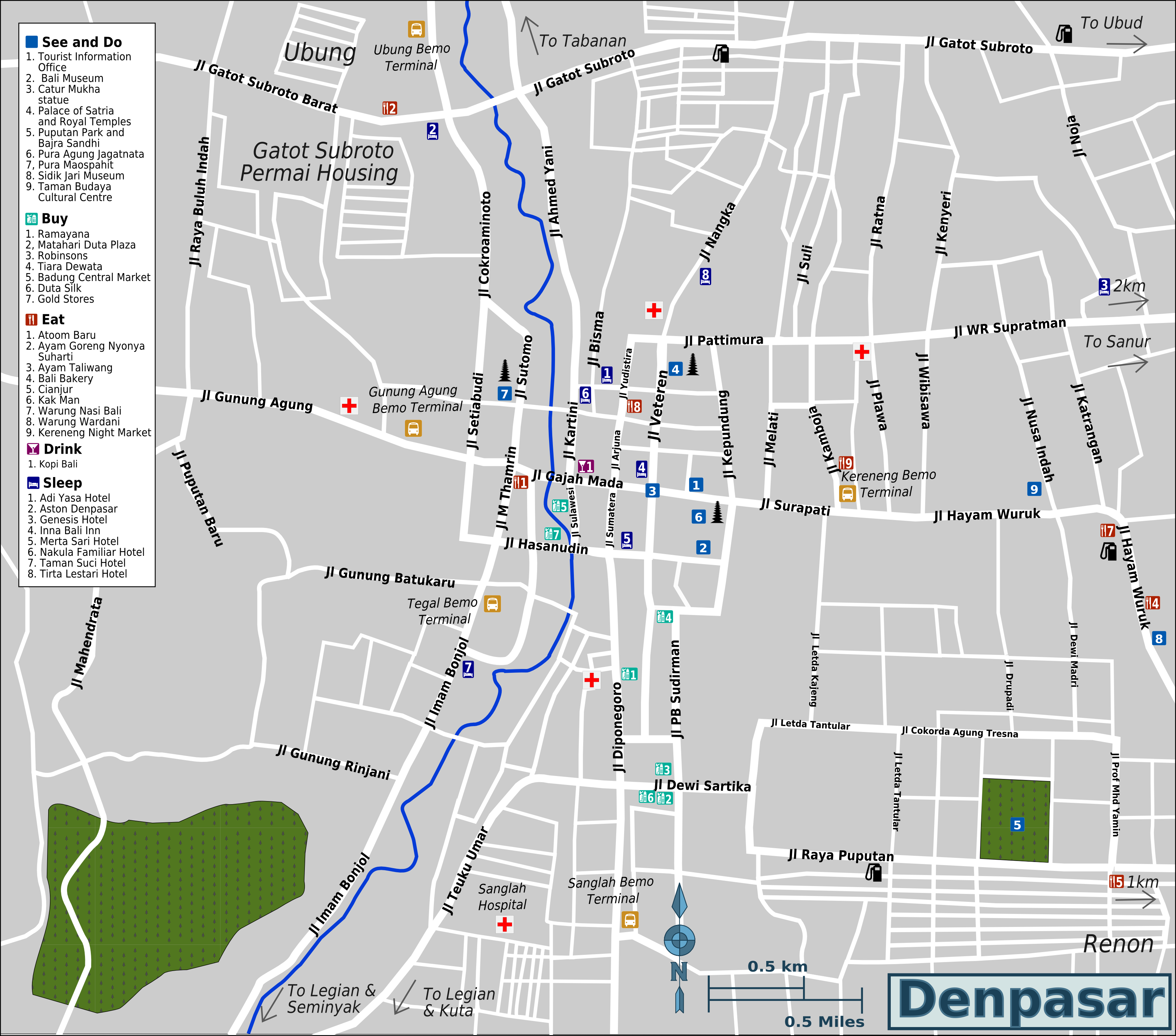 Travel map of Denpasar, Bali, Indonesia for use in Wikivoyage